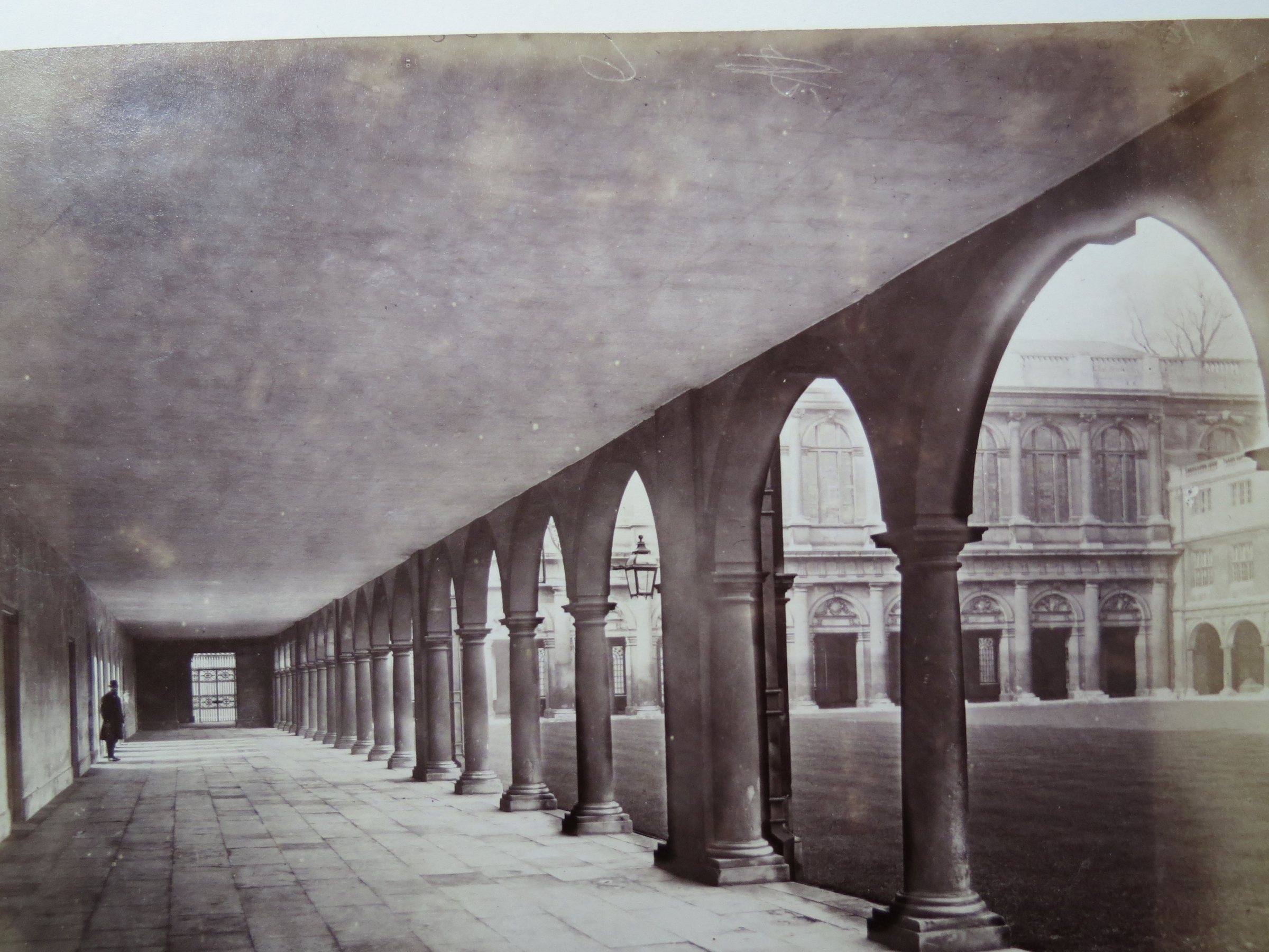 Nevile's Court Colonnade, Trinity College, Cambridge University, circa 1870. Image taken from original albumen print from a bound album of 58 Cambridge University photographs. Original 19th century album in the possession of Kimberly Blaker, New Boston Fine and Rare Books.